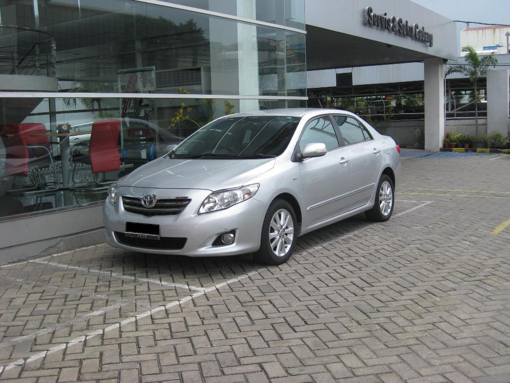 Toyota Corolla Altis 1.8 G (ZZE142)